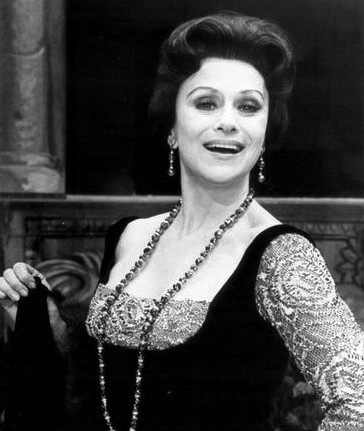 Photo of Ruth Warwick as Mrs. Emmeline Marshall in the Broadway play Irene.